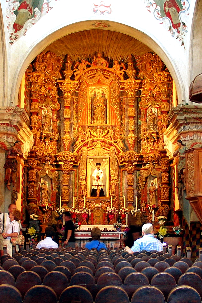 Saint Xavier Del Bac Mission, Tucson, Arizona, USA.